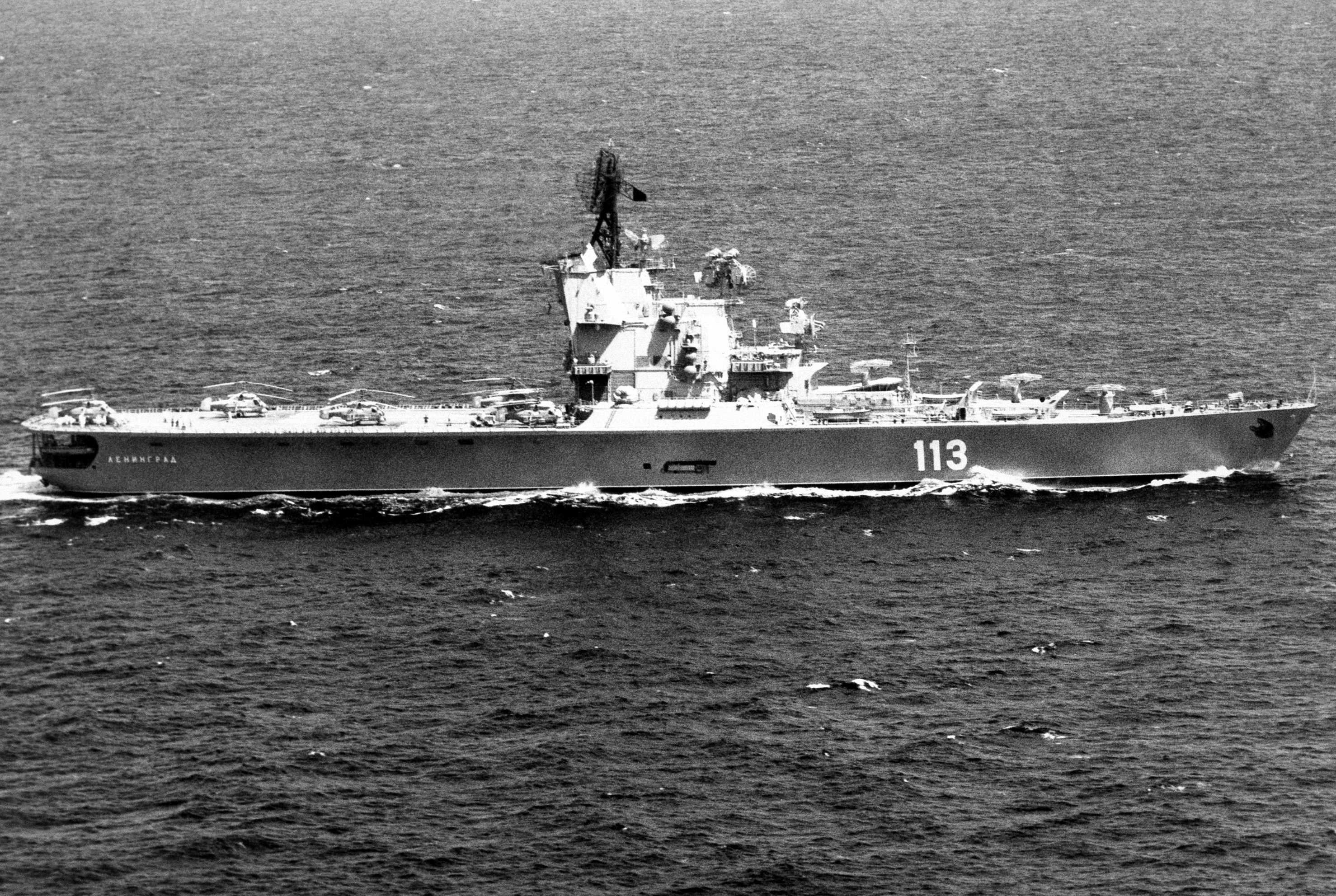 Helecopter carrier Leningrad, Project 1123 Kondor, Moskva class helicopter carrier